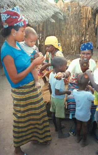 Compound near Nema